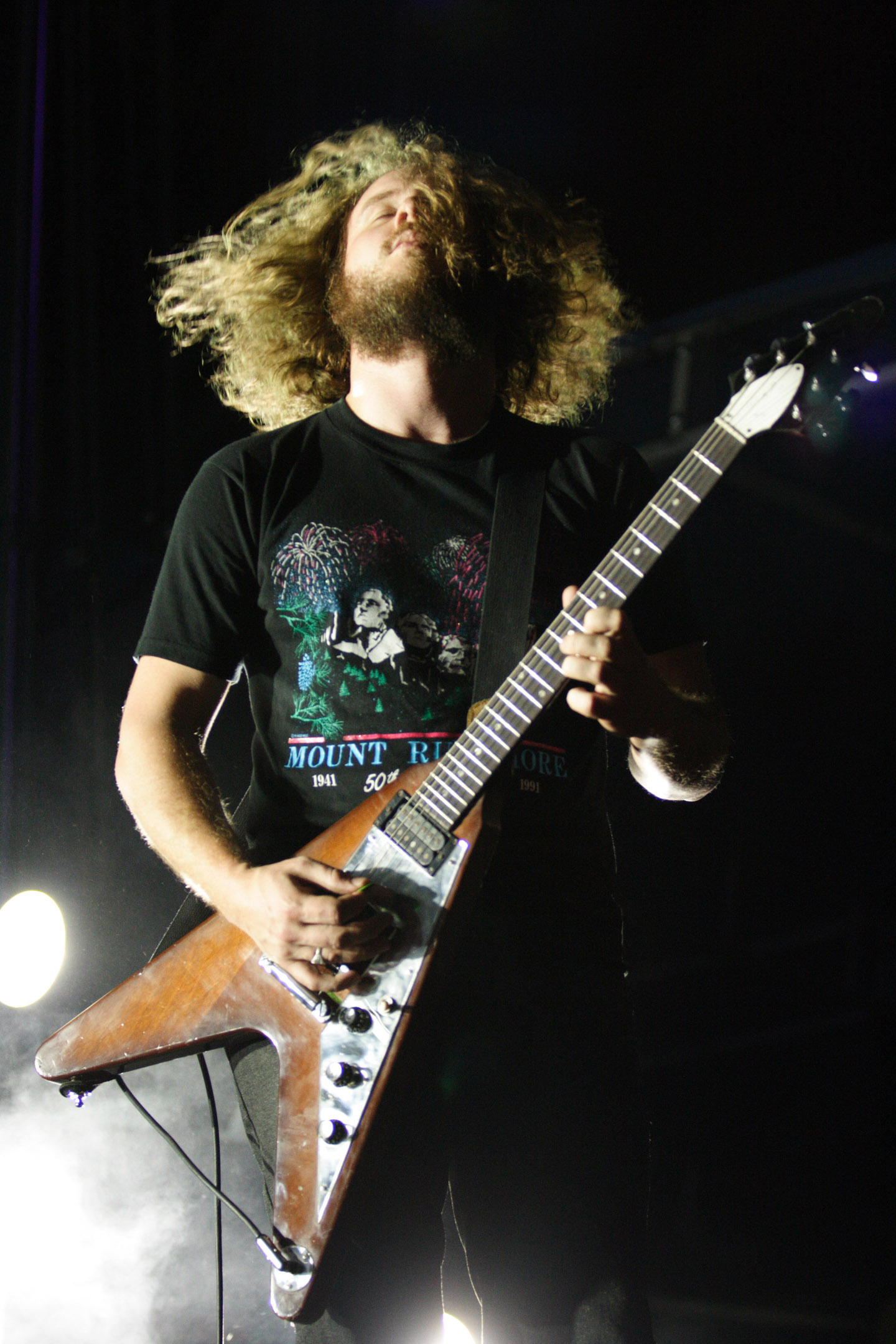 Picture of Jim James, Lead singer of My Morning Jacket. Photograph by Trey Cady